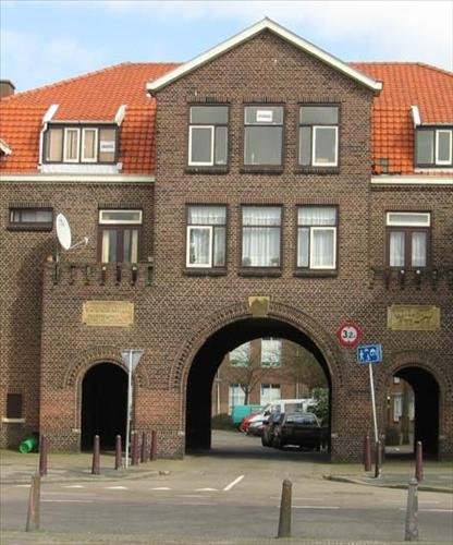 Vrijstaathof, Transvaal, The Hague